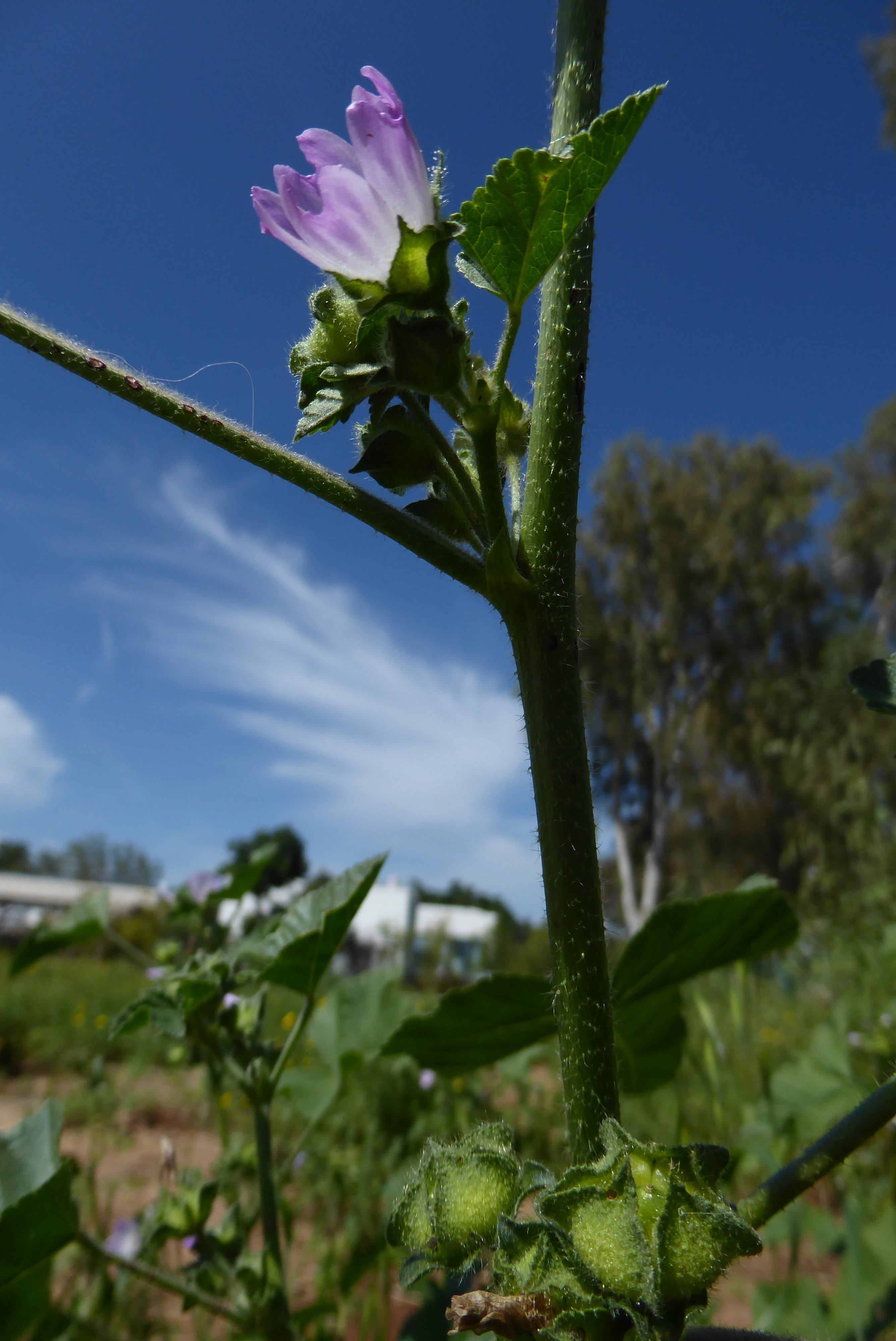 Savion blossoms